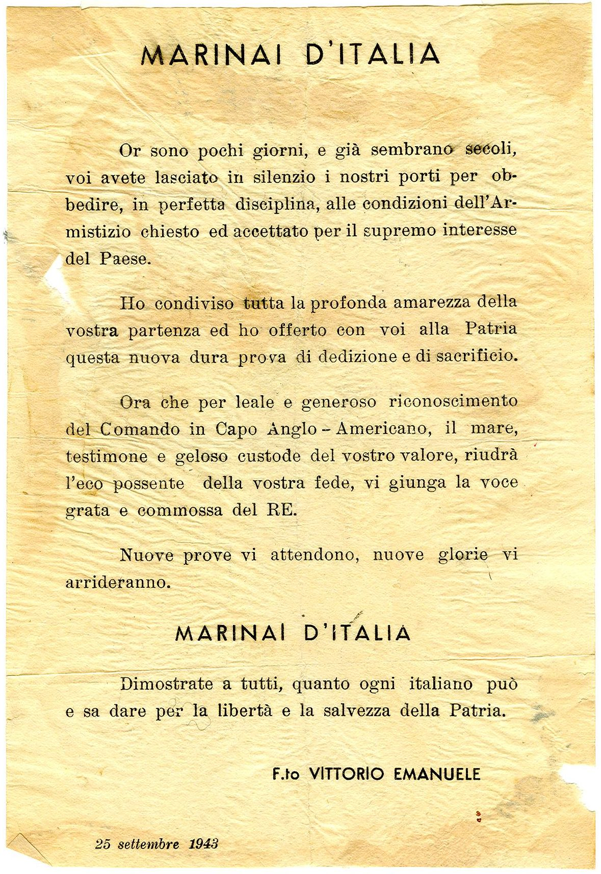 Document sent by Vittorio Emanuele III to the Italian sailors after the armistice of 1943